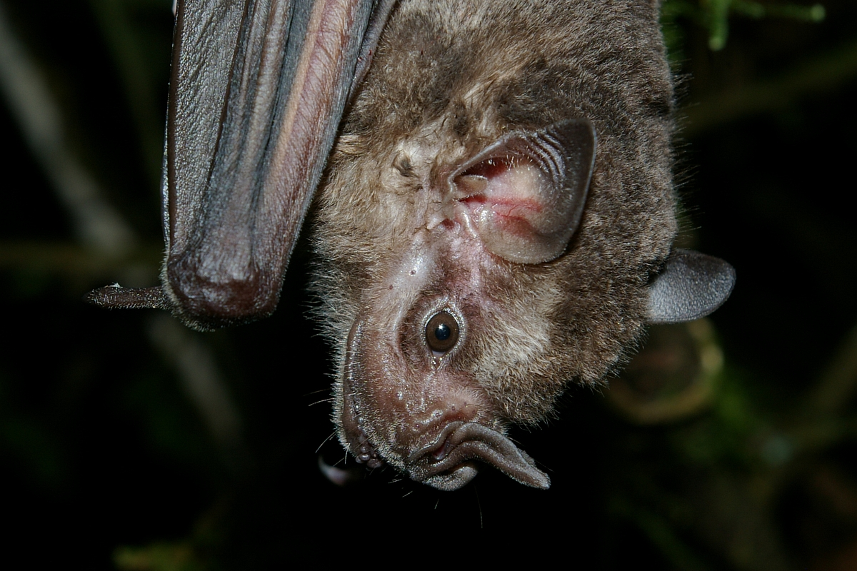 Head shot of the Jamaican fruit bat (Artibeus jamaicensis)